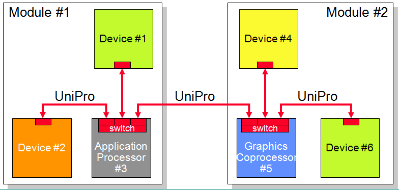 Image by Peter van den Hamer.